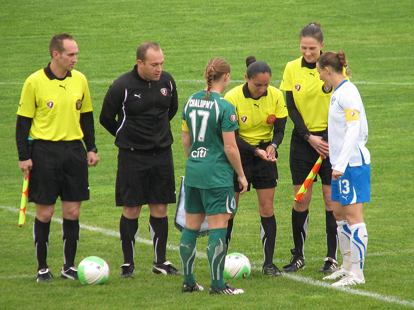 Captain Lori Chalupney of the (WPS) Womens Professional Soccer Club, St.Louis Athletica shakes hands with Kristine Lilly.